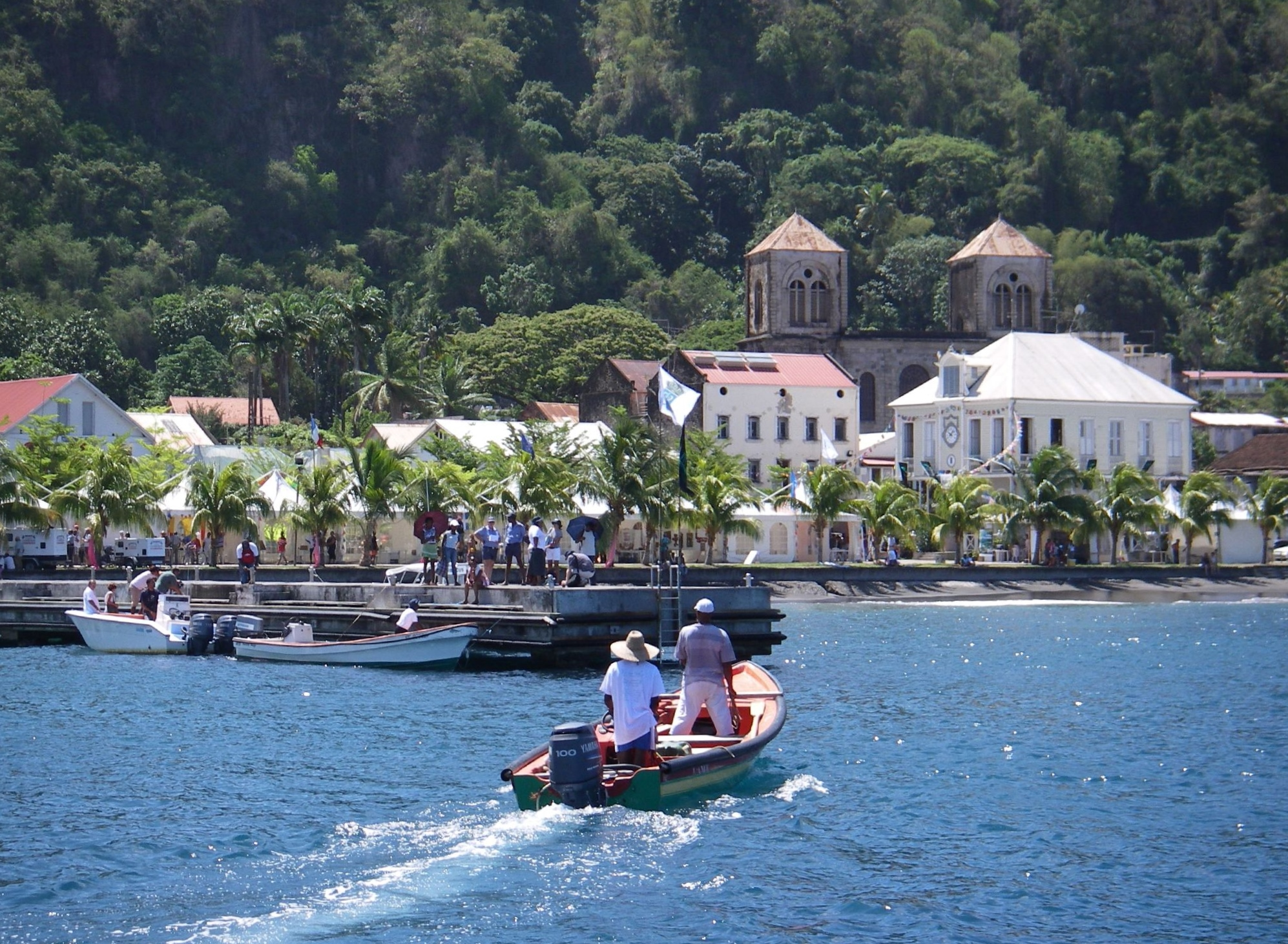 Saint-Pierre, Martinique. View from the ocean of the town. French Overseas territory of Martinique